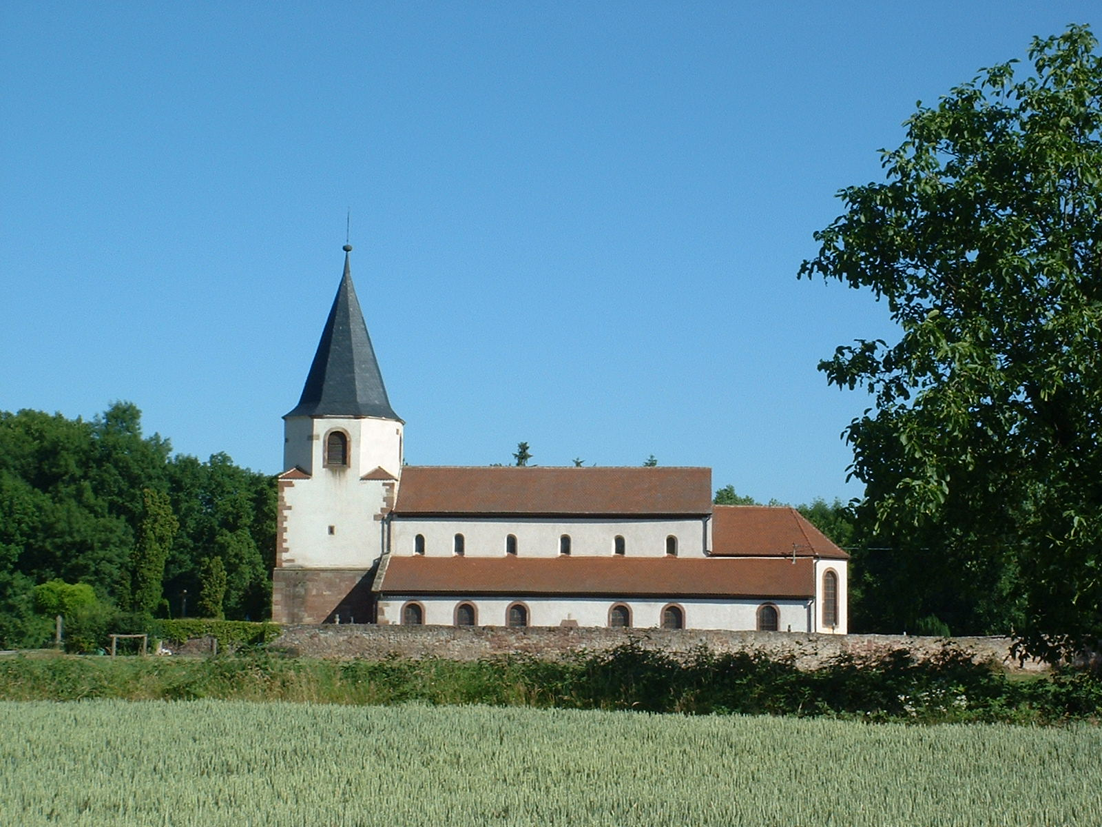 Dompeter church near Molsheim